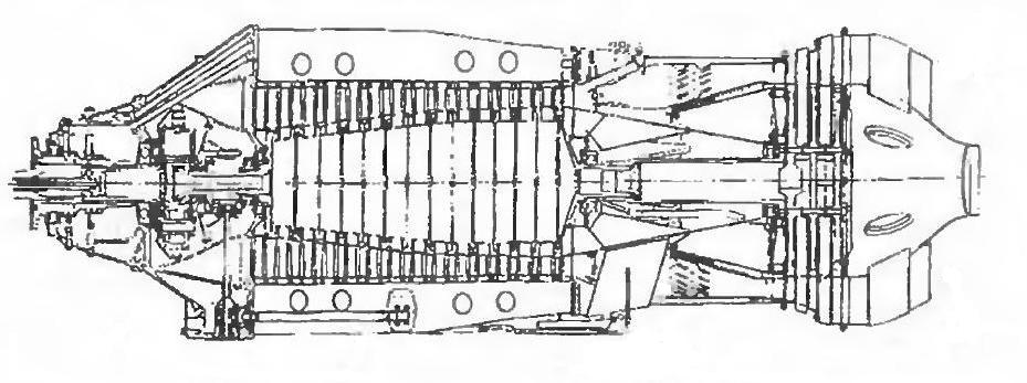 Drawing aeroengine ТВ-022